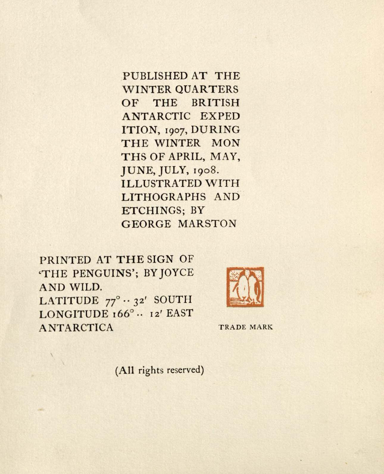 Copyright page from Aurora Australis, 1908, published at the winter quarters of the British Antarctic expedition. Illustrated with lithographs and etchings; by George Marston and printed at the sign of ʻThe Penguins'; by Joyce and Wild. Latitude 77⁰ 32ʹ South, longitude 166⁰ 12ʹ east. Antarctica 1908. Considered the first book ever printed in the Polar regions; only 90 copies printed. Typ 100.908, Houghton Library, Harvard University